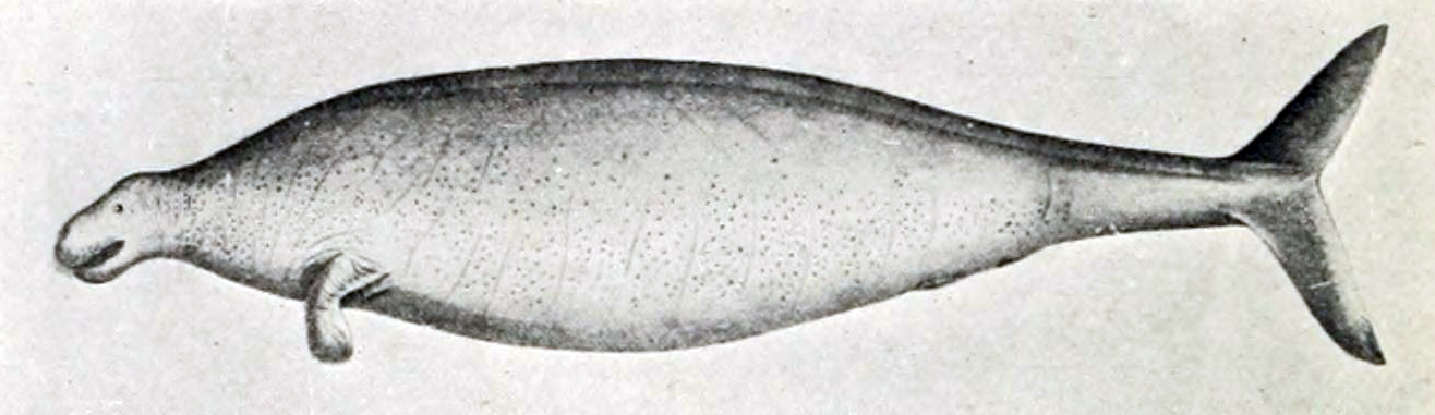 Reconstruction of Steller's Sea Cow.[1]